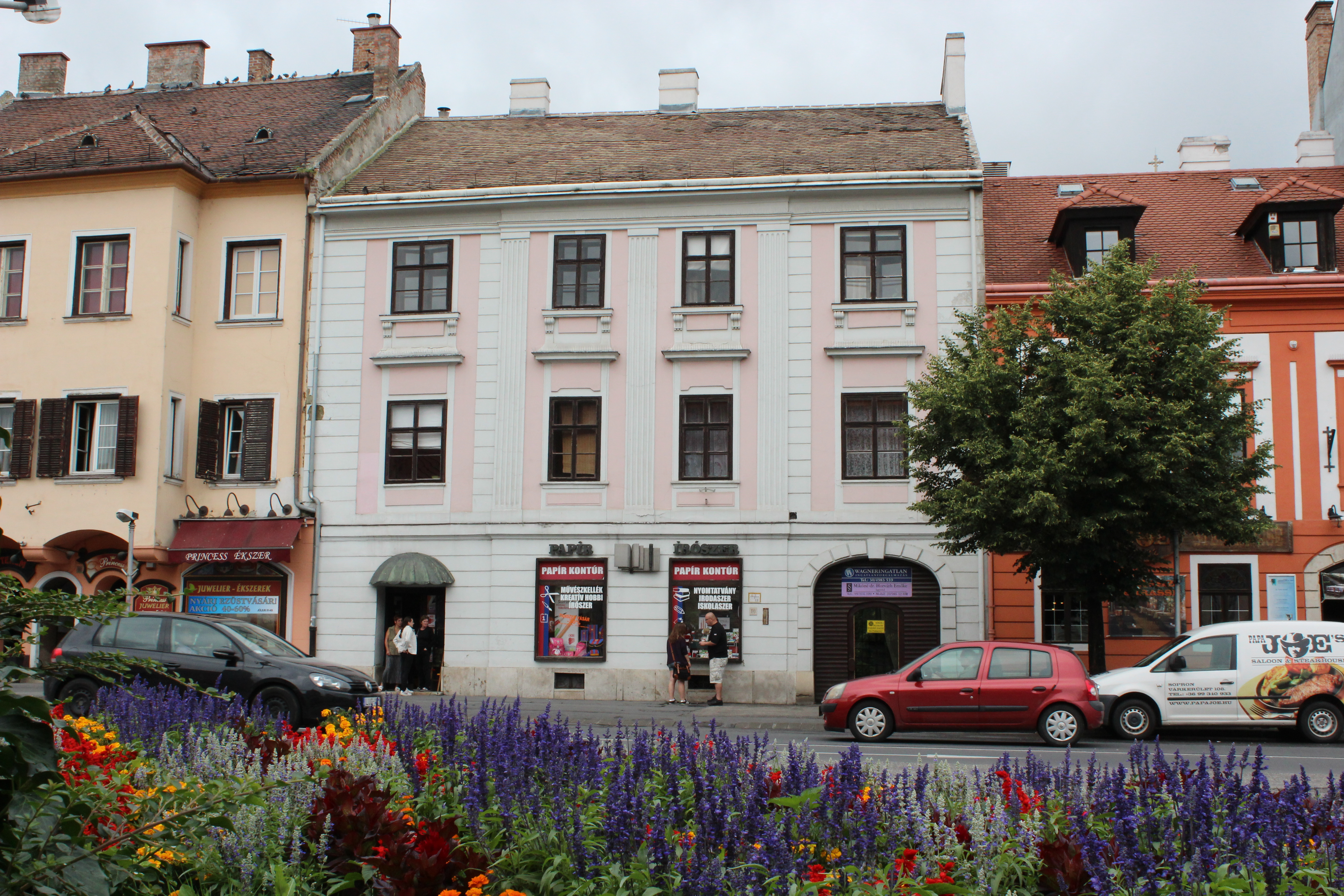 Birthplace of László Rátz (1863–1930). (Hungary, Sopron, Várkerület 110.)